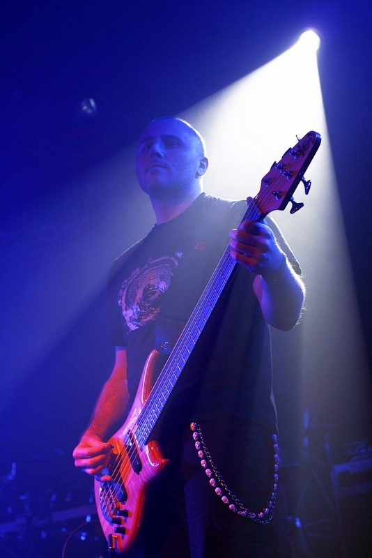 Piotr Milczarek of Artrosis, Katowice, Mega Club, 6.05.2011